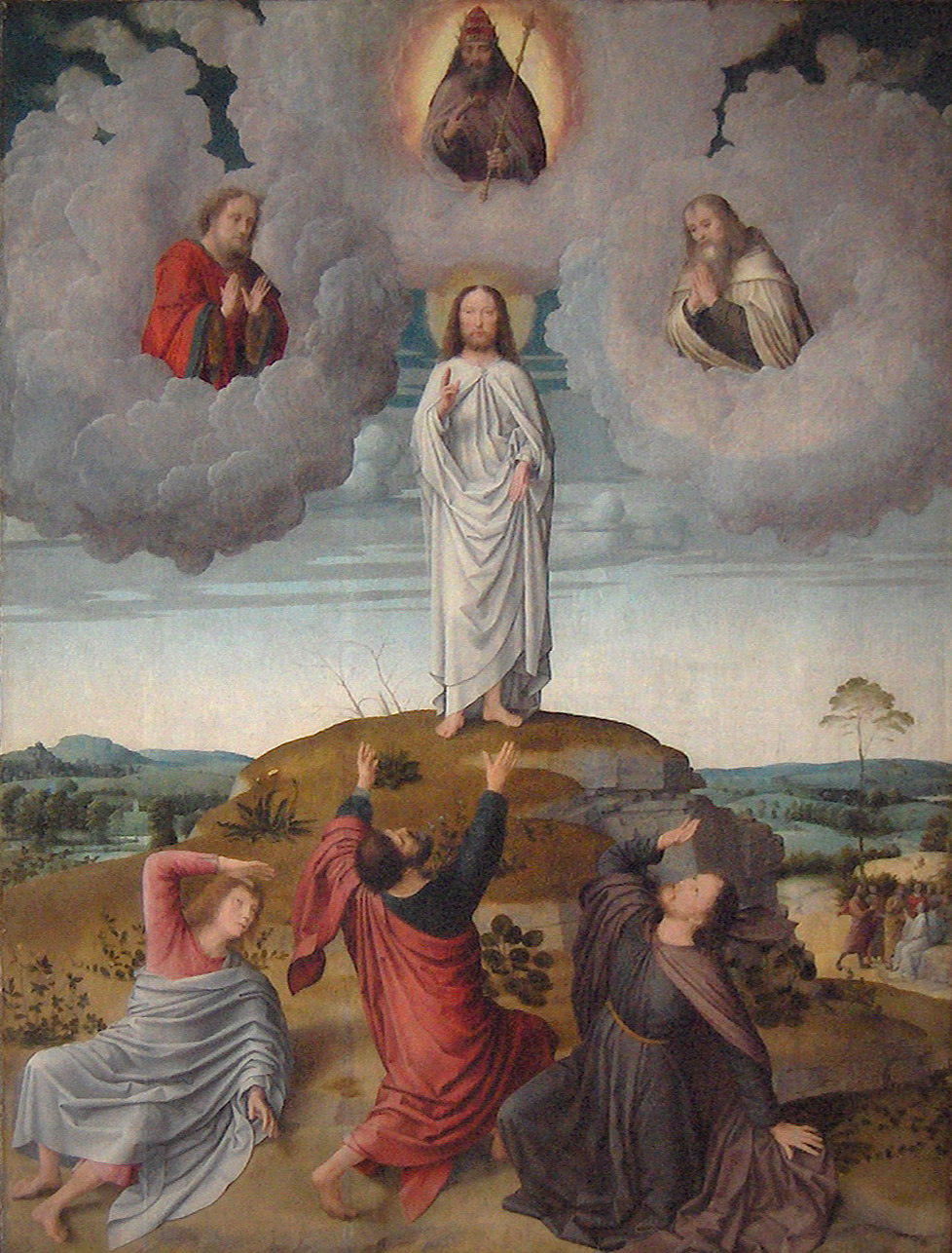 Transfiguration of Christ